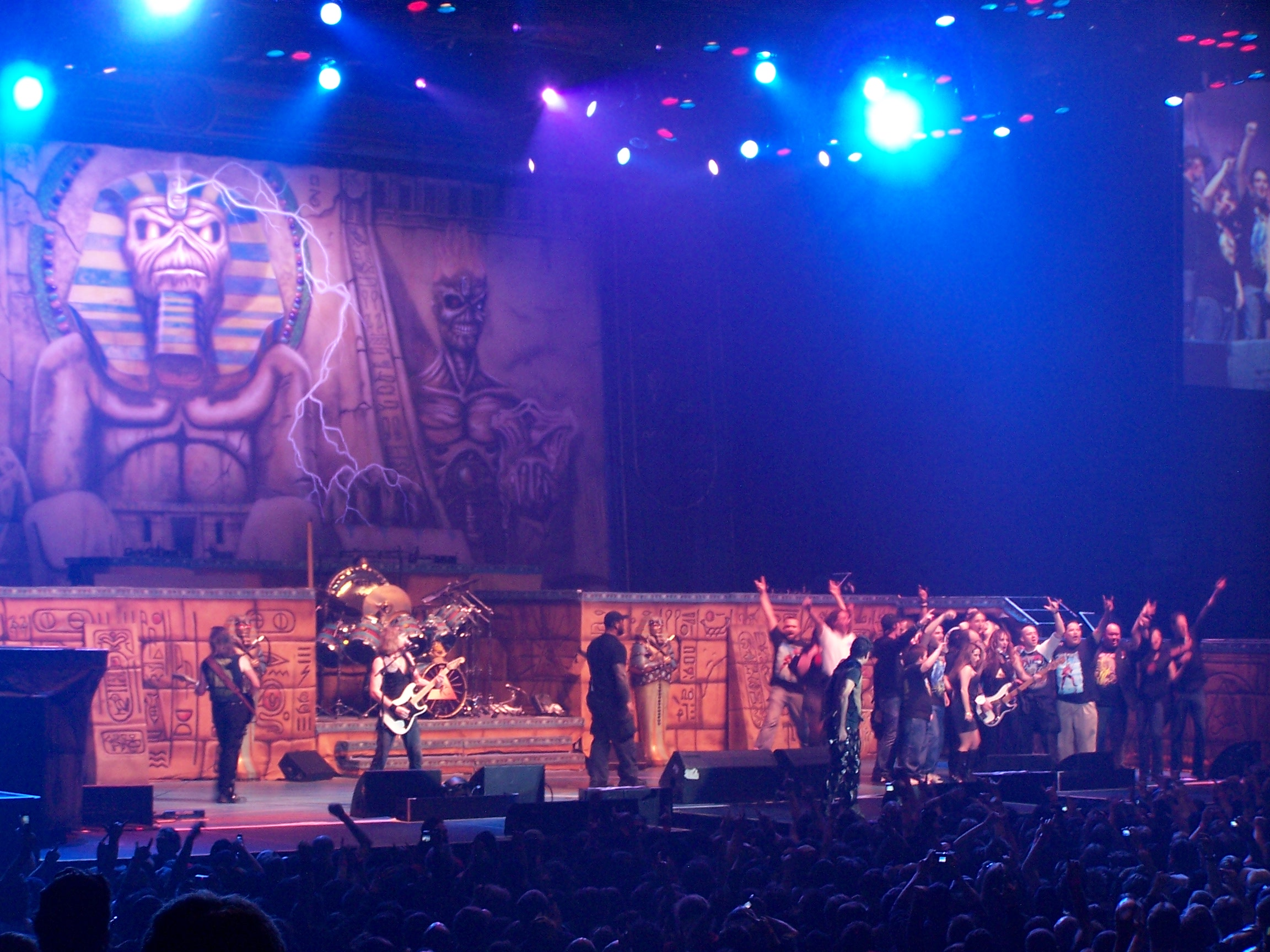 Fan club members join Iron Maiden on stage in Toronto.